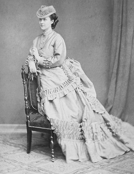 Queen Elisabeth of Romania (1843-1916) as a young woman, early 1860s